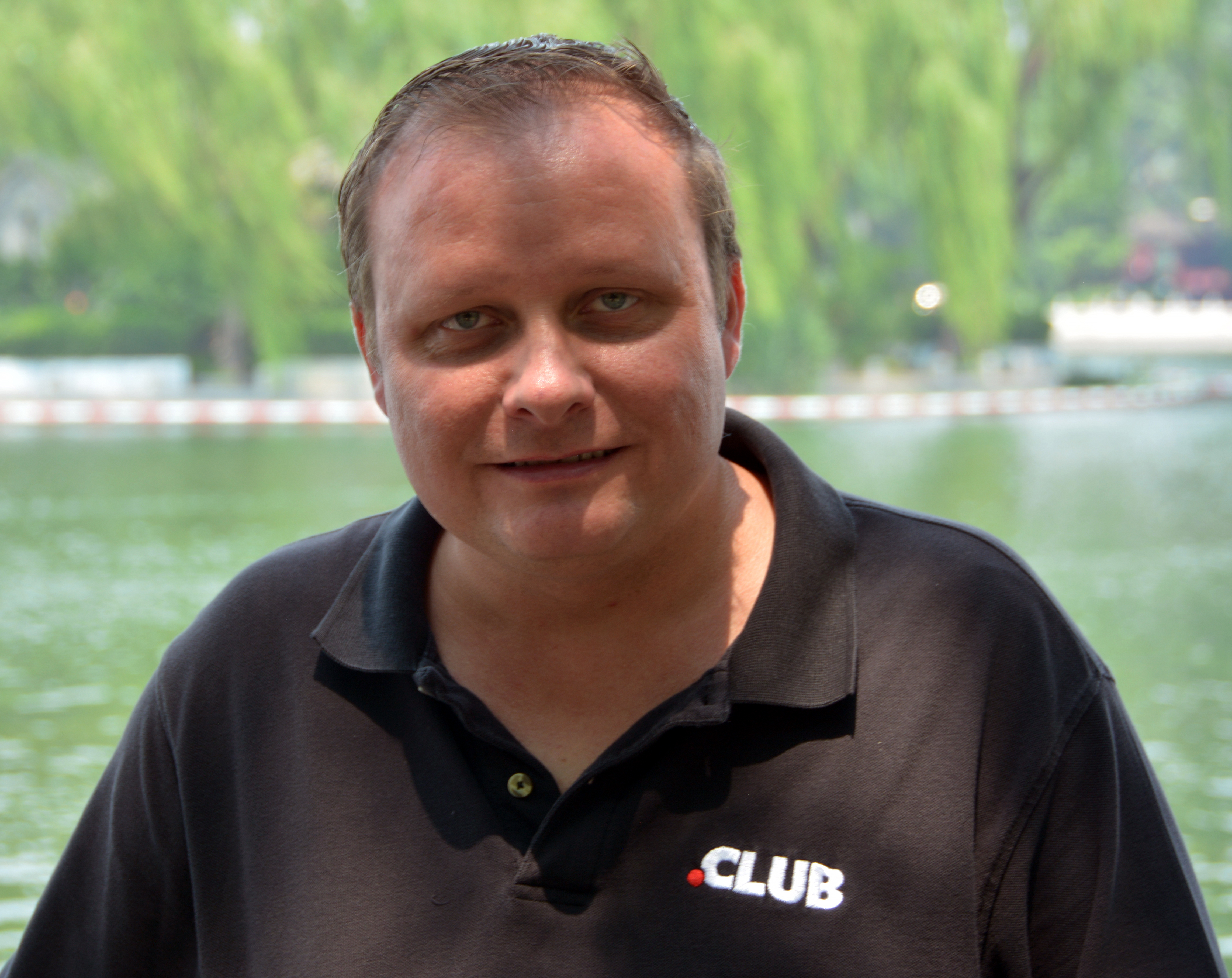 Colin Campbell in Beijing, China on tour with .club. It depicts Colin Campbell standing in front of the lake in Houhai area of Beijing, China.